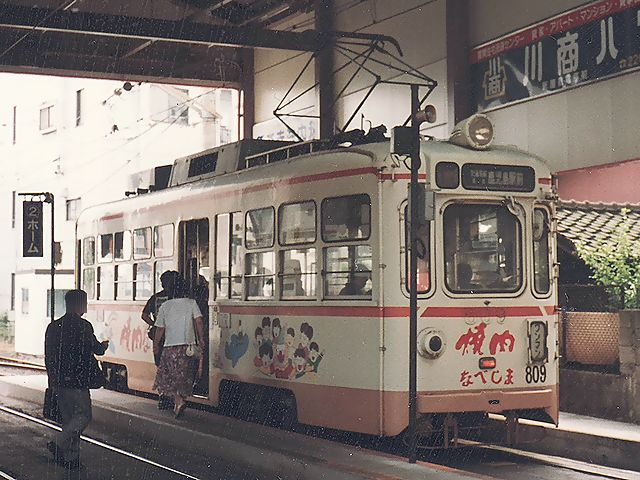 Kagoshima City Transportation Bureau type 800 tramcar 809 at Taniyama Tram Stop, Higashi-Taniyama 2, Kagoshima City, Kagoshima, Japan. Scanned from negative color print